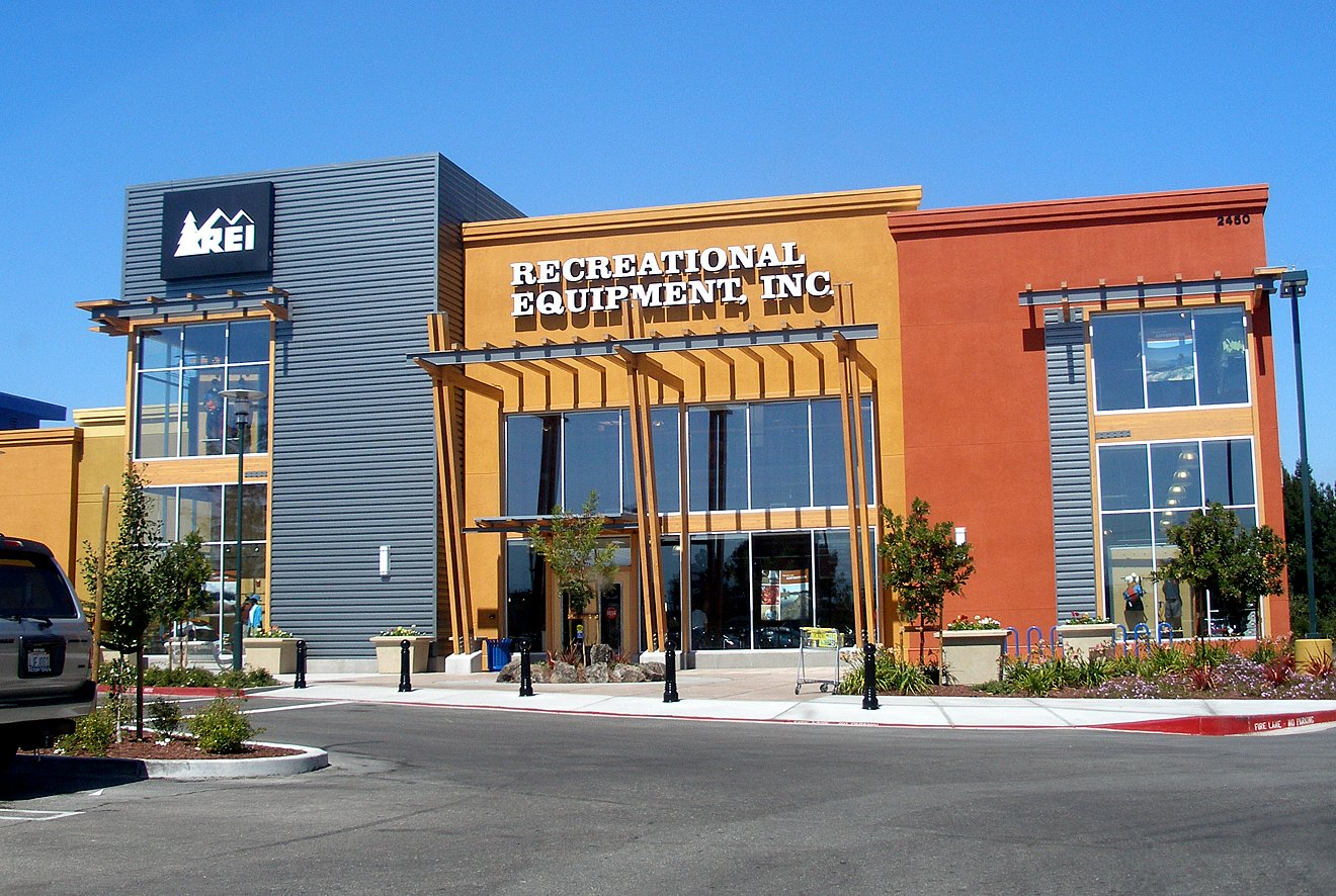 A R.E.I. sporting goods store in Mountain View just across U.S. Highway 101 from the Googleplex.